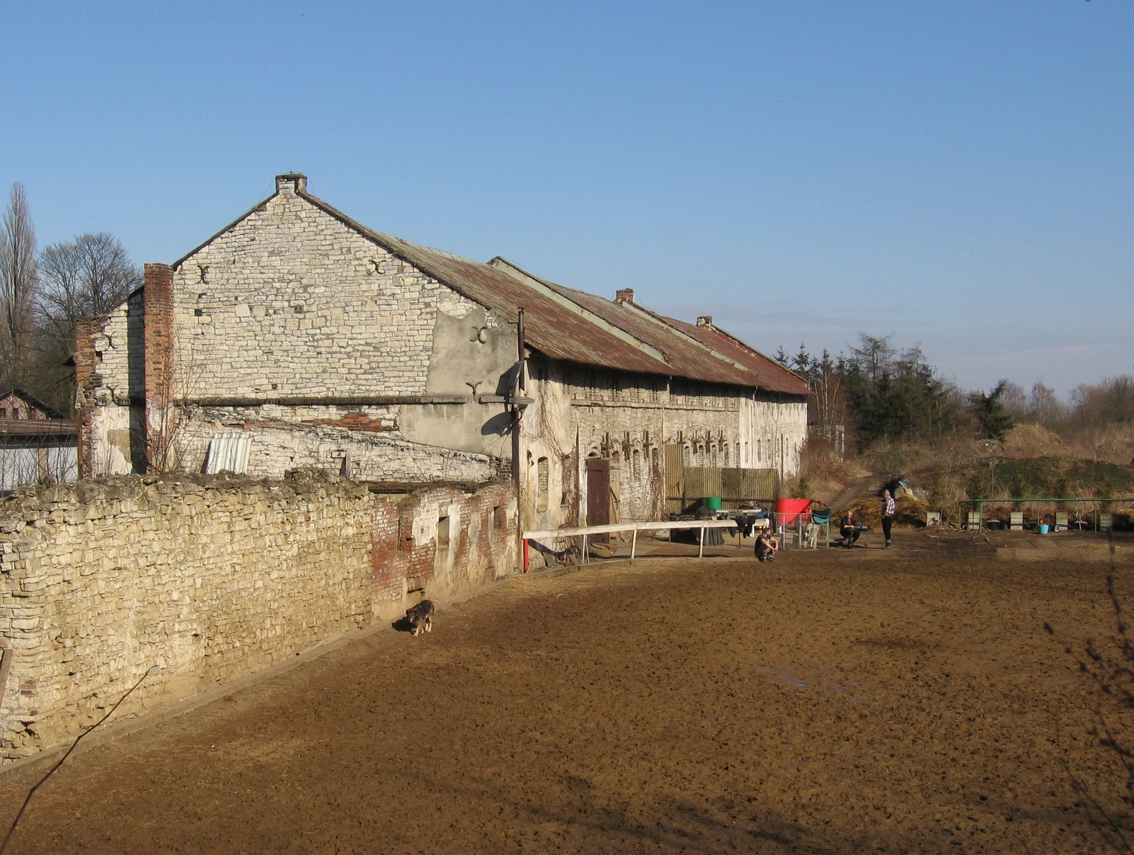 The grange Antoniowiec in Chorzów, Poland.